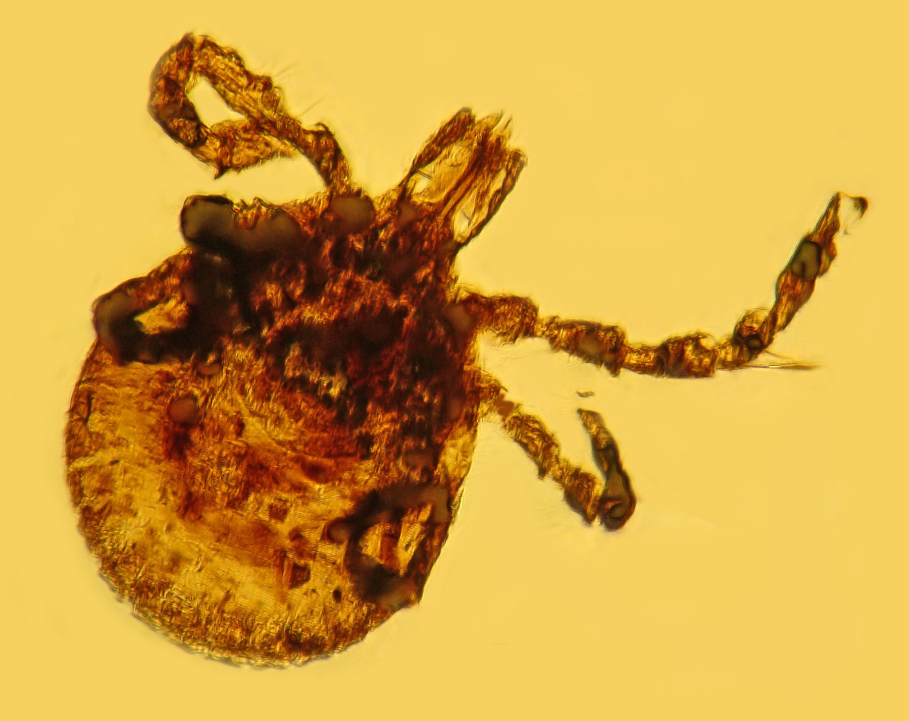 This tick trapped in ancient amber from the Dominican Republic can carry the type of bacteria that causes lyme disease. (Photo by George Poinar, Jr., courtesy of Oregon State University)